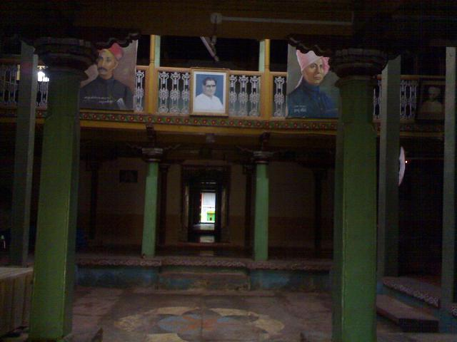 Kundgol, wade, 15 km from Hubli Author and Source : Manjunath Doddamani, Gajendragad, Karnataka (North), India